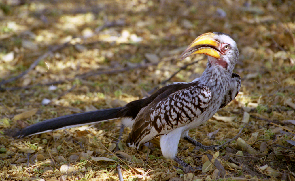 Southern Yellow-Billed Hornbill - Tockus leucomelas